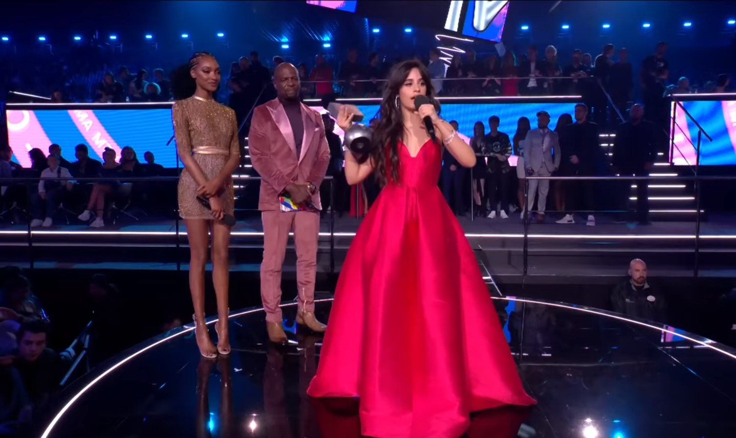 Camila Cabello Accepts Best Video award at the 2018 European Music Awards in Bilbao!